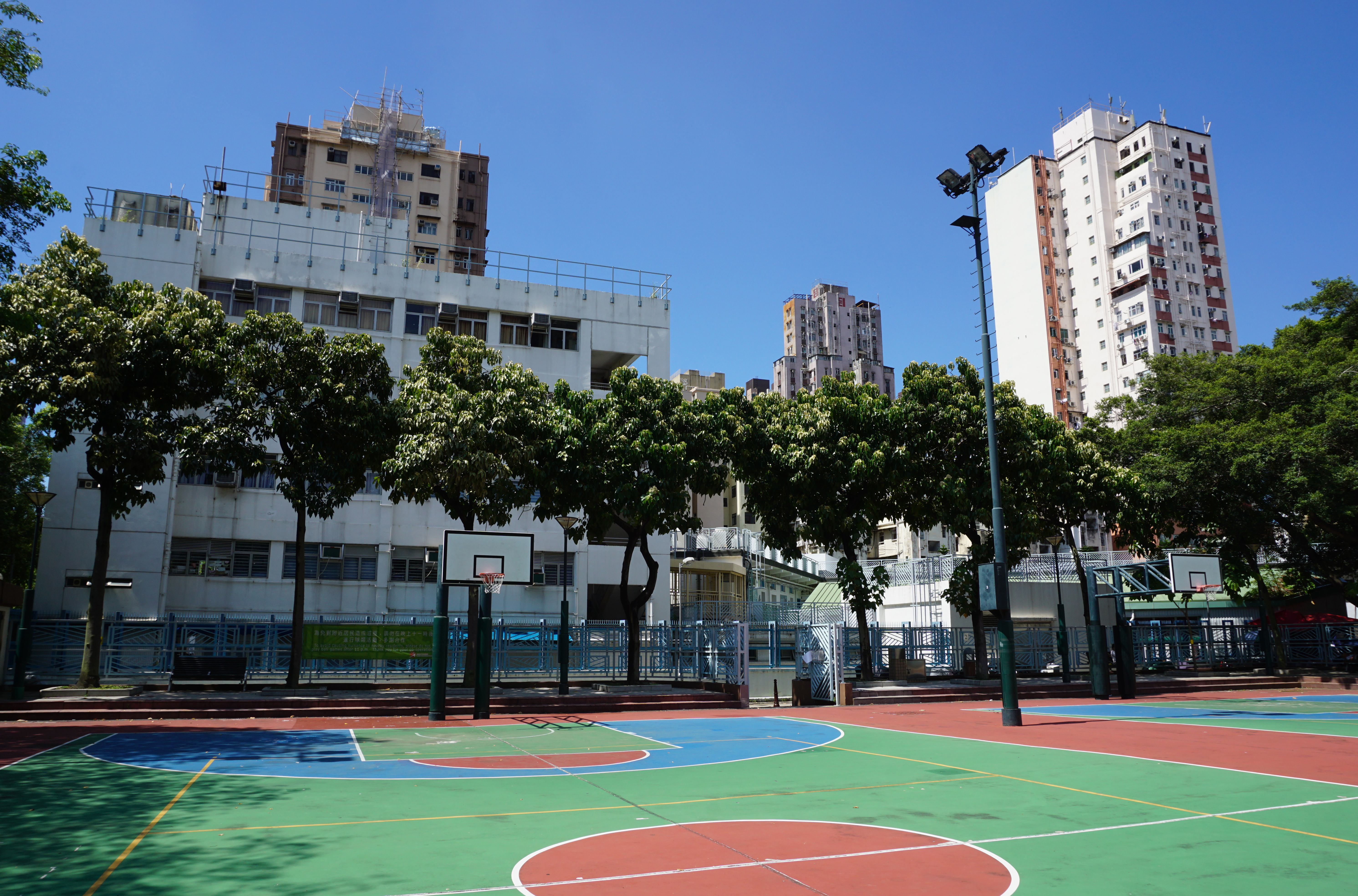 CCC Chun Kwong Primary School in Yuen Long, Hong Kong.